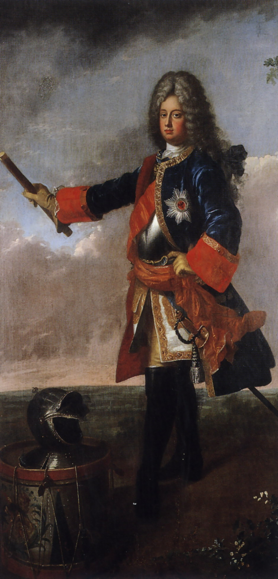 Claude Fréderic T'Serclaes, duke of Tilly (1648-1723), painted for the Gouvernors Palace in Maastricht by Johann Valentin Tischbein (after contemporary portrait?), ca 1750. Museum collection of Schloss Fasanerie, Fulda, Germany.